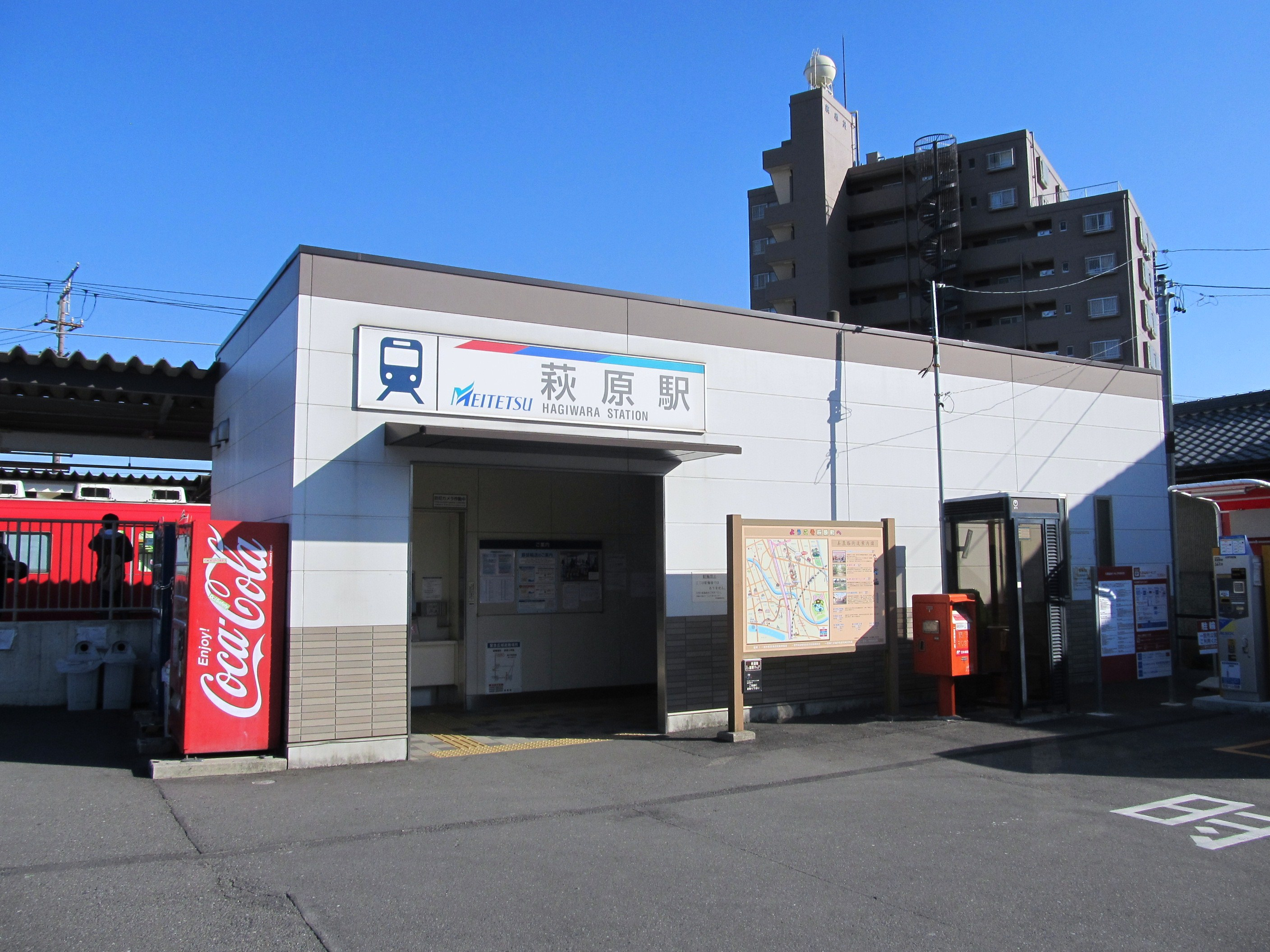 Nagoya Railroad Bisai Line Hagiwara Station Building.